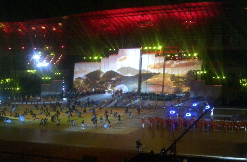 Opening Ceremony PON XIX Jawa Barat 2016